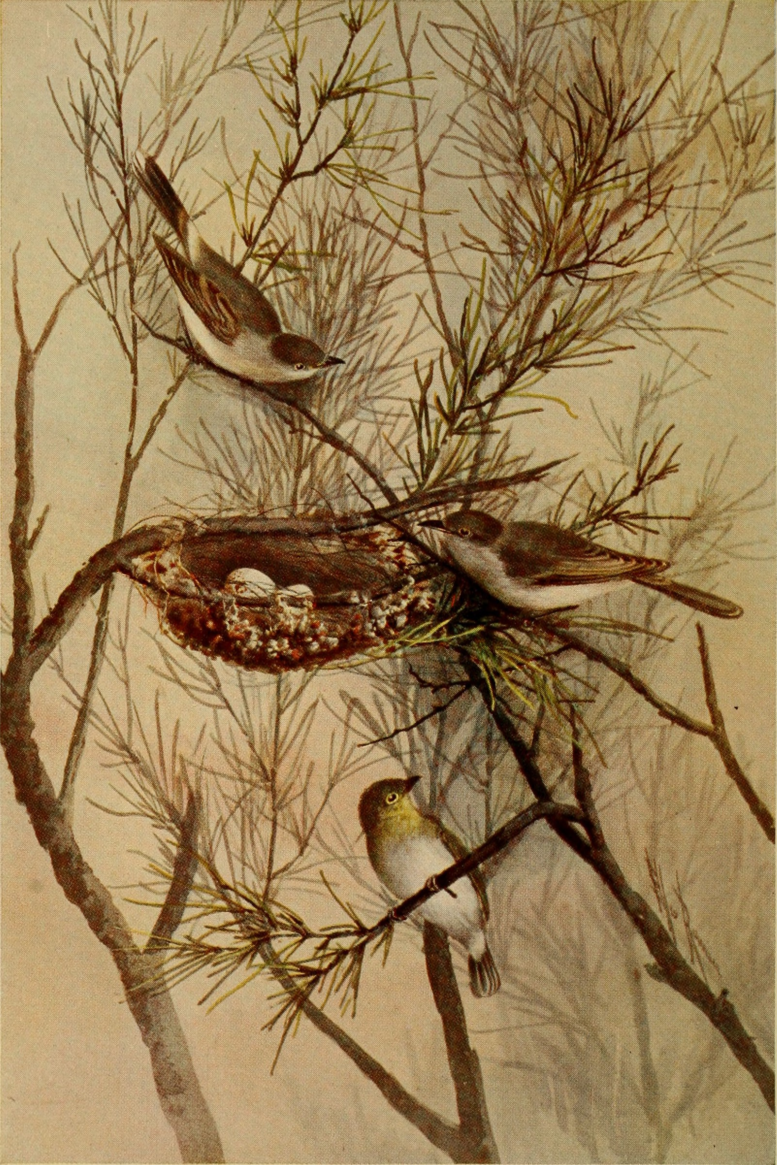 Title: The Emu : official organ of the Australasian Ornithologists' Union Year: 1901 (1900s) Authors: Royal Australasian Ornithologists' Union Subjects: Ornithology; Birds Publisher: Melbourne : Royal Australasian Ornithologists Union Text Appearing Before Image: The Emu, Vol. IX. PLATE XV. Text Appearing After Image: The Alfred Honey-eater (Lacustroica whitei. North). (The lowest figure in youthful plumage.) Drawing by Ellis Rowan.) ENGRAVED BY PATTERSON. SHUGQ & CO. MELBOURNE AND SYDNEY. PRINTED BY D. W. PATERSON CO. MELBOURNE.